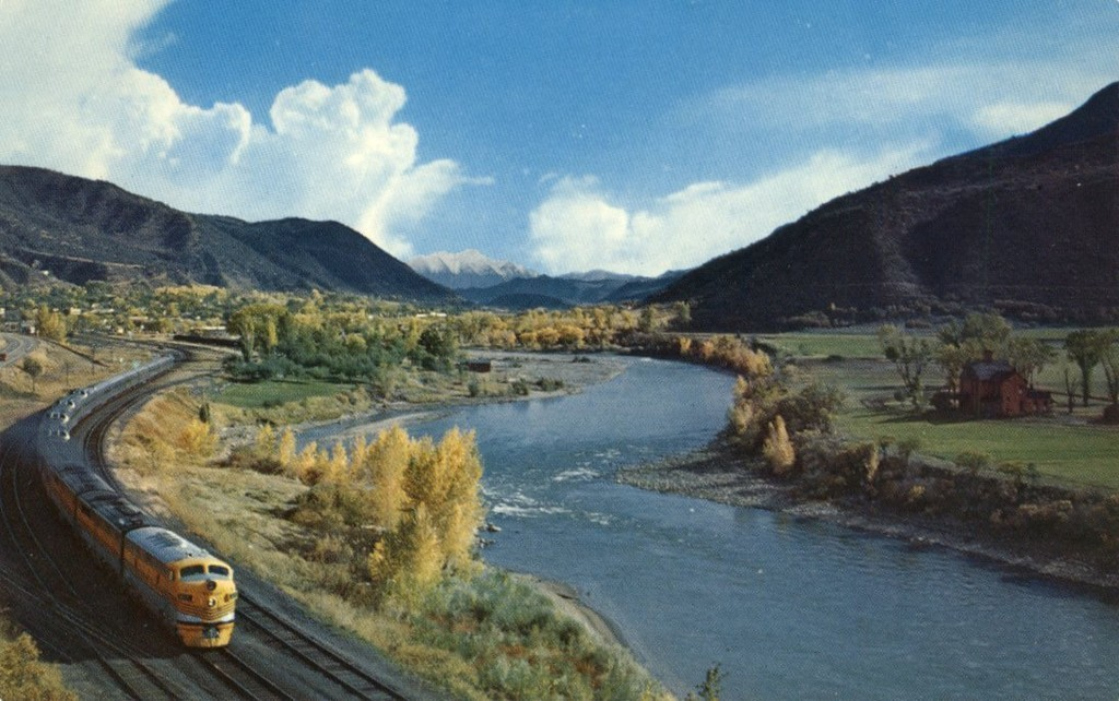 Postcard photo of the California Zephyr on Denver & Rio Grande trackage along the Colorado River in Western Colorado. In this segment of the journey, the train was headed by Denver and Rio Grande locomotives.